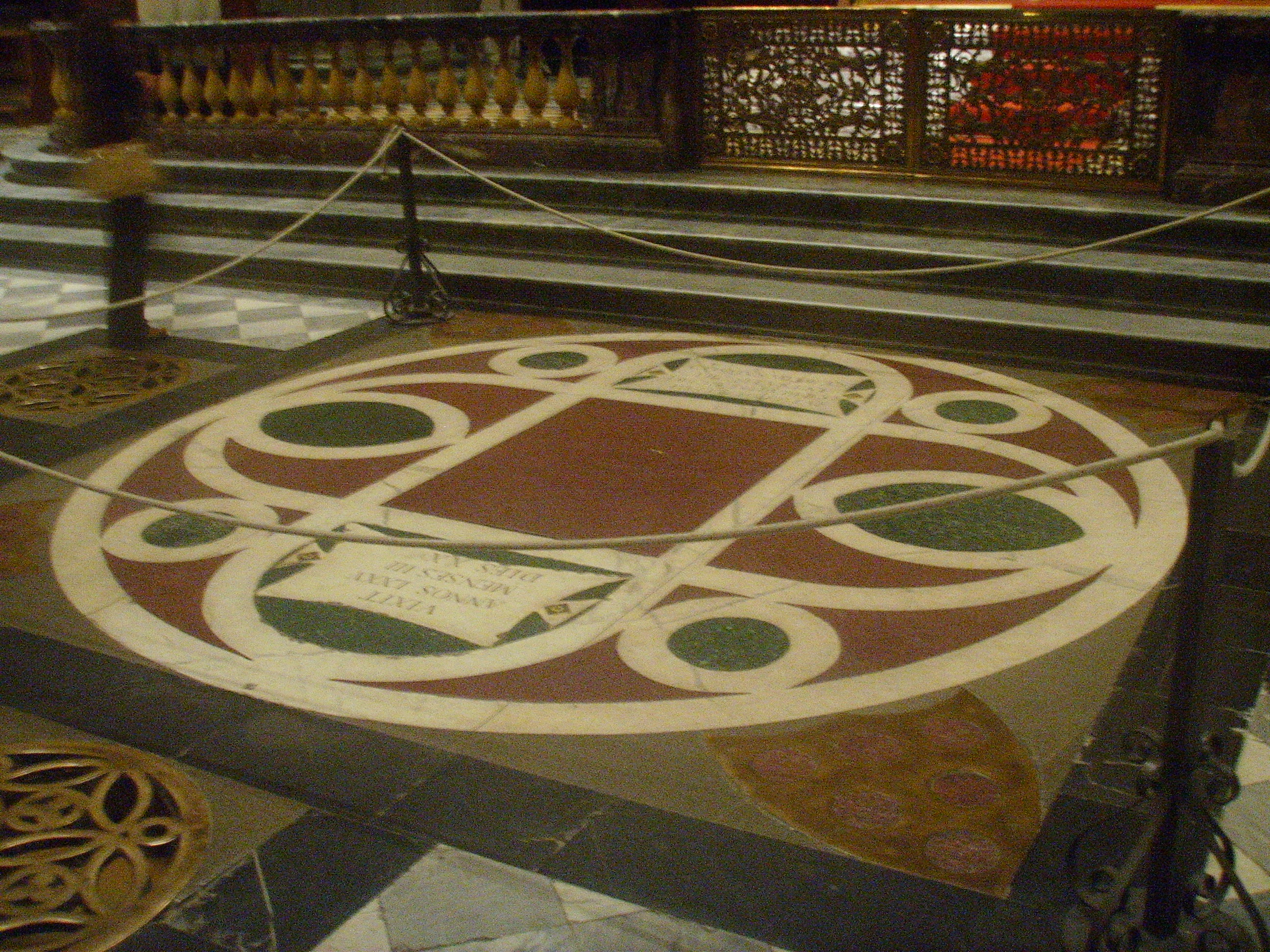 Interior of the Basilica of San Lorenzo (Florence)